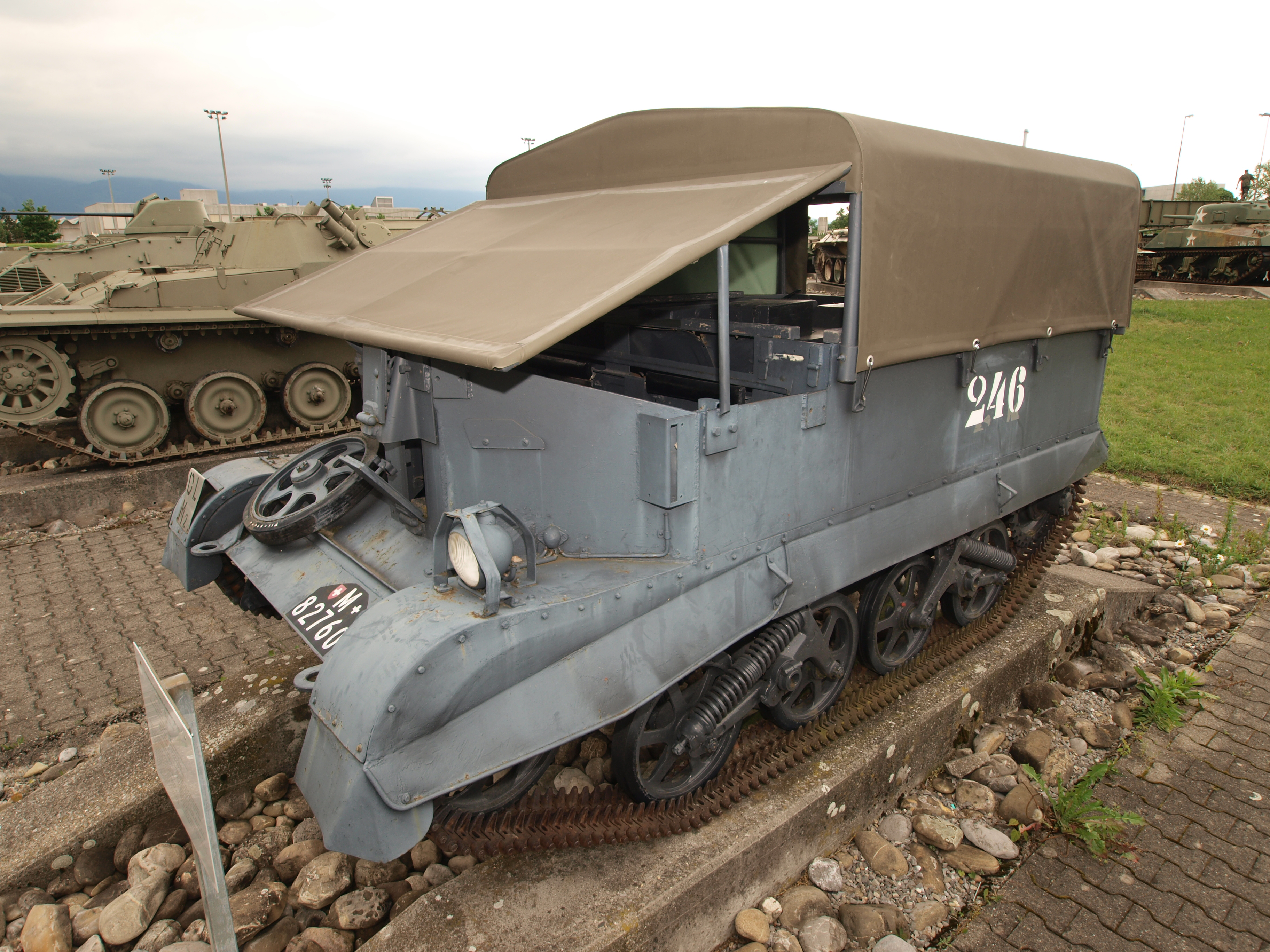 Photographed at the army base Thun, Switserland.